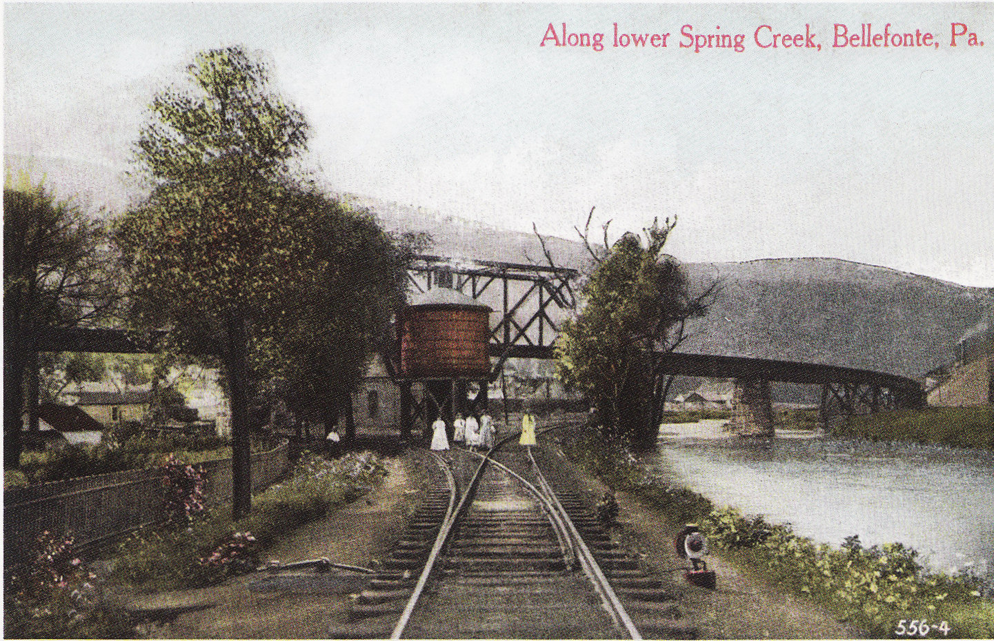 Postcard view of the Central Railroad of Pennsylvania viaduct in Bellefonte, Pennsylvania. The view looks north along the Pennsylvania Railroad Bellefonte Branch tracks passing under the viaduct, with Spring Creek to the right. Viaduct depicted existed between 1899 and 1919.